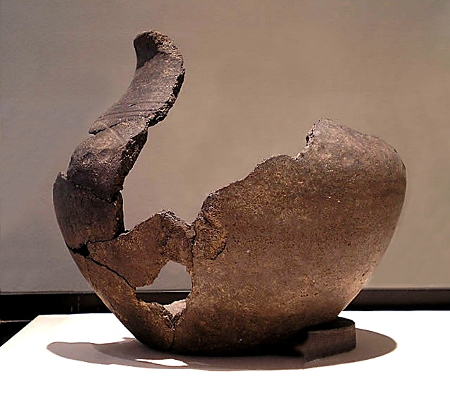 Fragments of a pottery vessel, Saxon, around AD 500, found in London, Museum of London